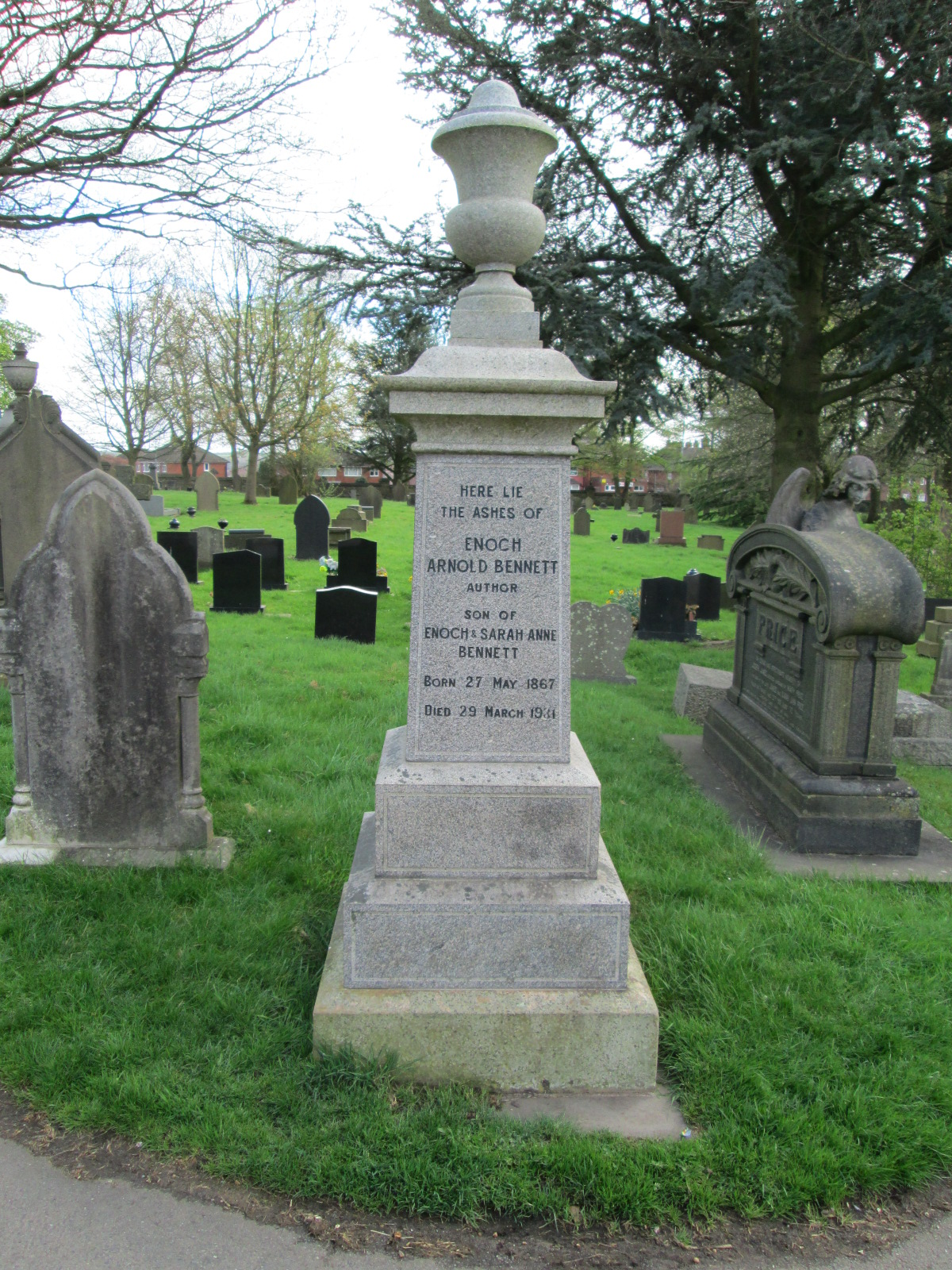 Monument for the ashes of Arnold Bennett, in Burslem Cemetery, Stoke-on-Trent.